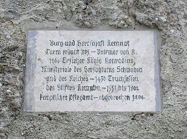 Kemnat castle (Kleinkemnat, Stadt Kaufbeuren, Allgäu, Bavaria). Memorial plaque (1933) at the keep